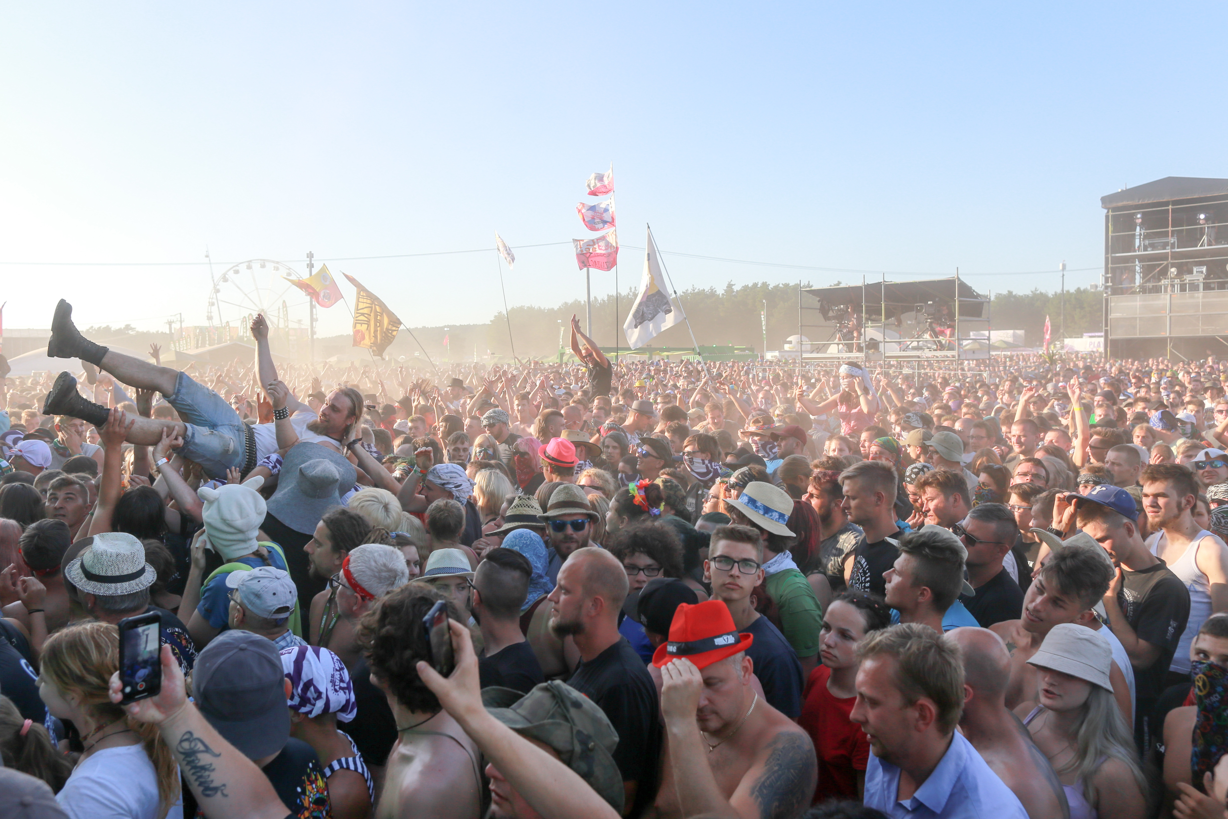 Pol’and’Rock Festival in 2018.